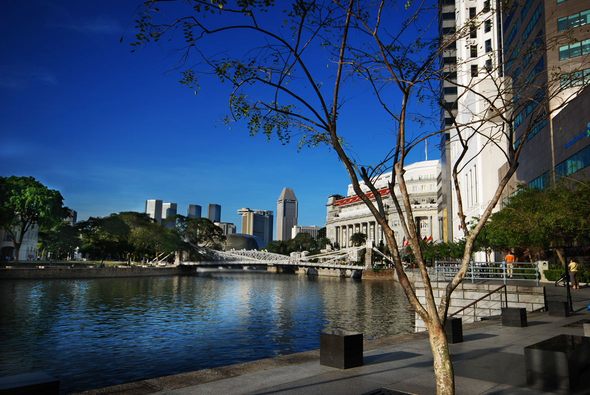 A view of the Singapore River, Cavenagh Bridge and The Fullerton Hotel Singapore, photographed from the bank of the river in front of the atrium of UOB Plaza.